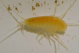 USFWS photo, watermark cropped